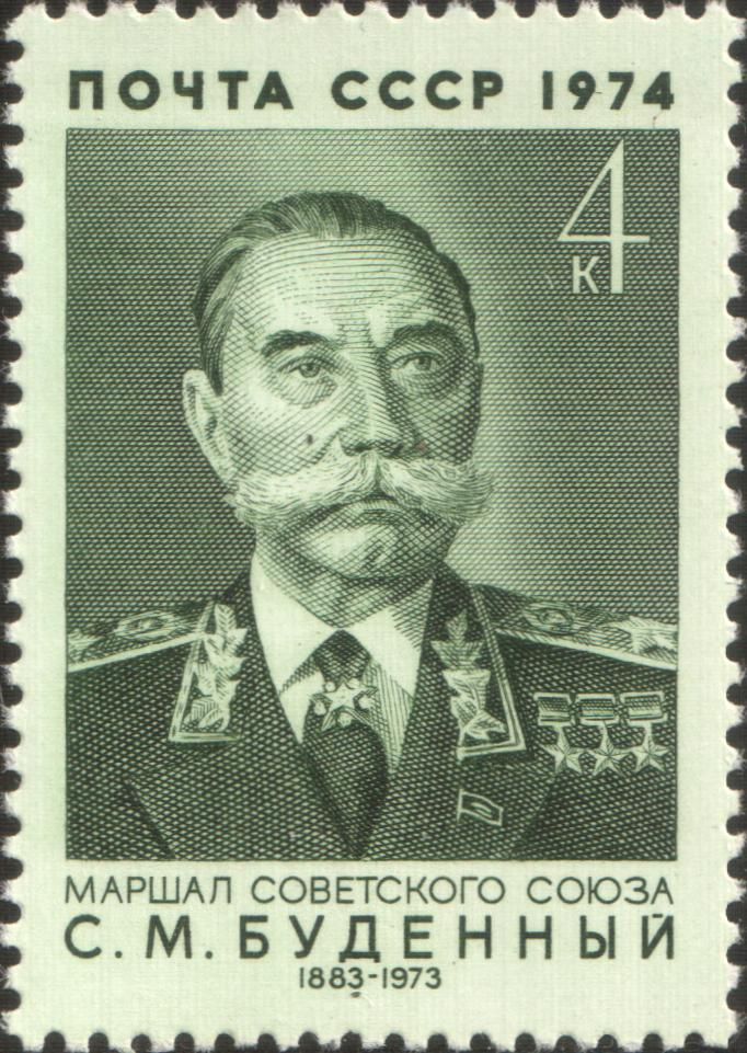 USSR stamp